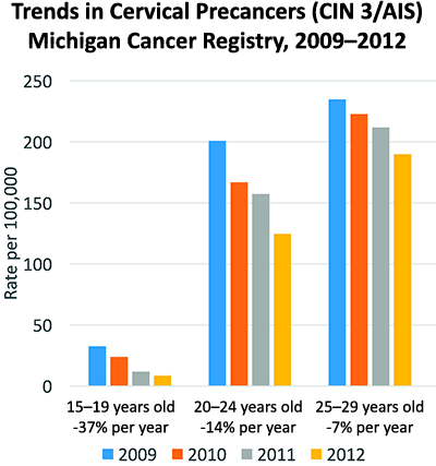 Cancer registries Michigan